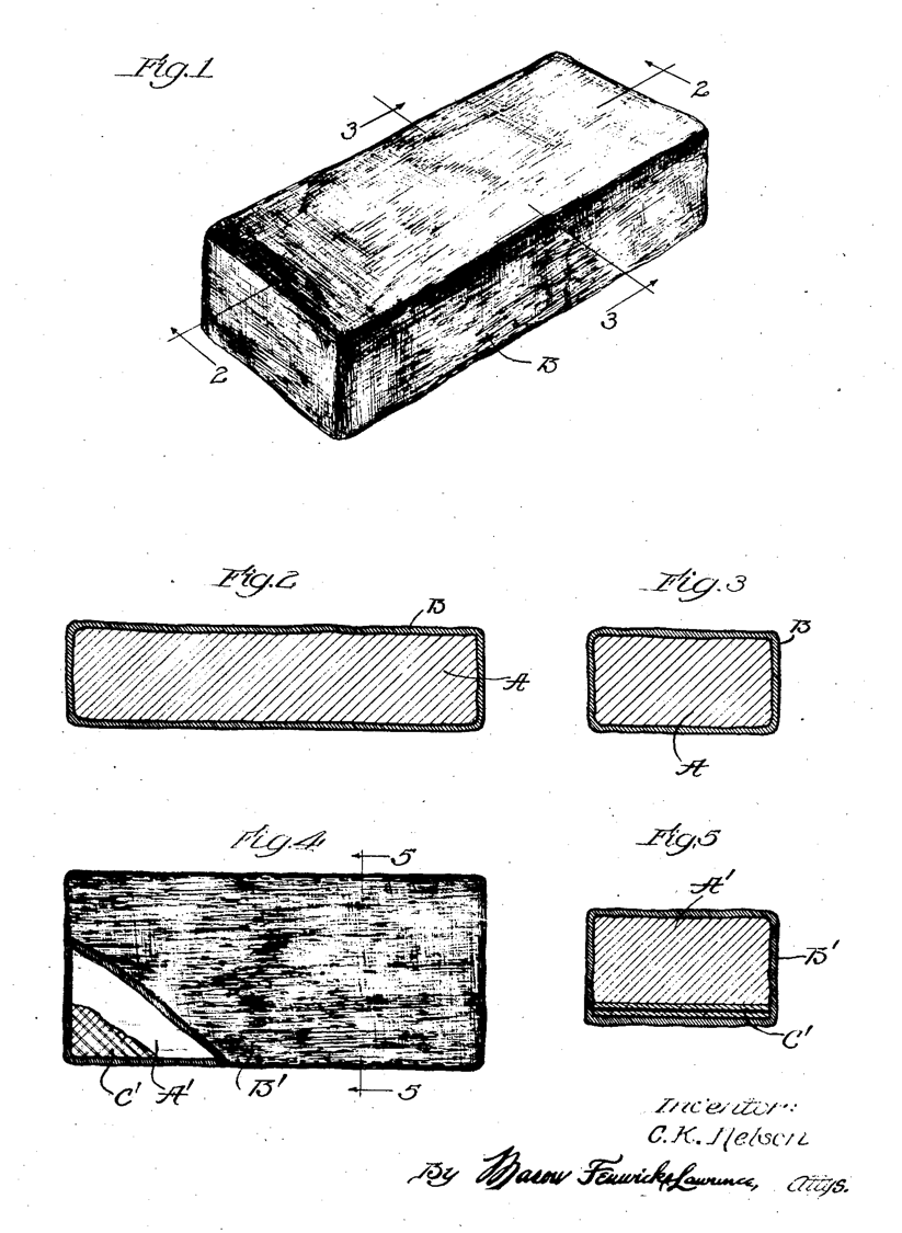 Ice cream bar patent drawing, United States Patent Office